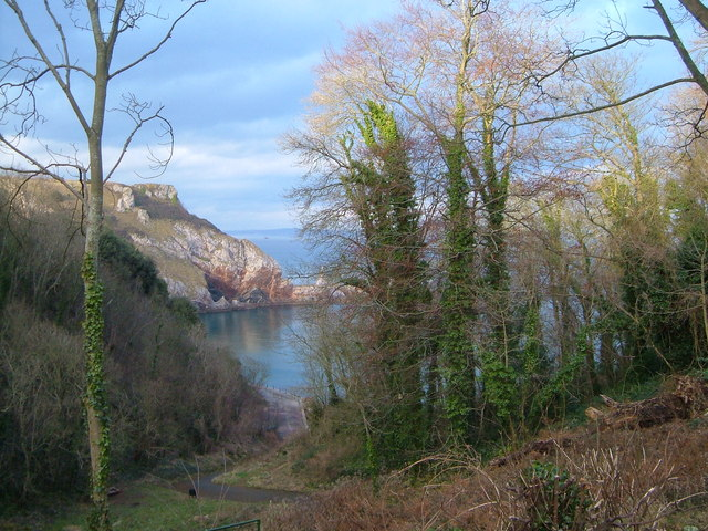 Anstey's Cove from Bishop's Walk. Looking NNE from near the western end of the Bishop's Walk stretch of the coastal path, across Anstey's Cove; Long Quarry Point behind.